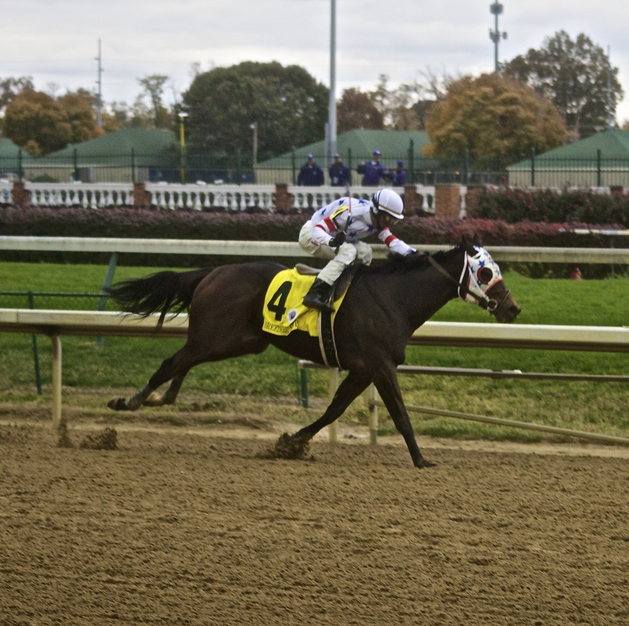 Gelding Eldaafer winning Breeders' Cup Marathon on November 5, 2010.